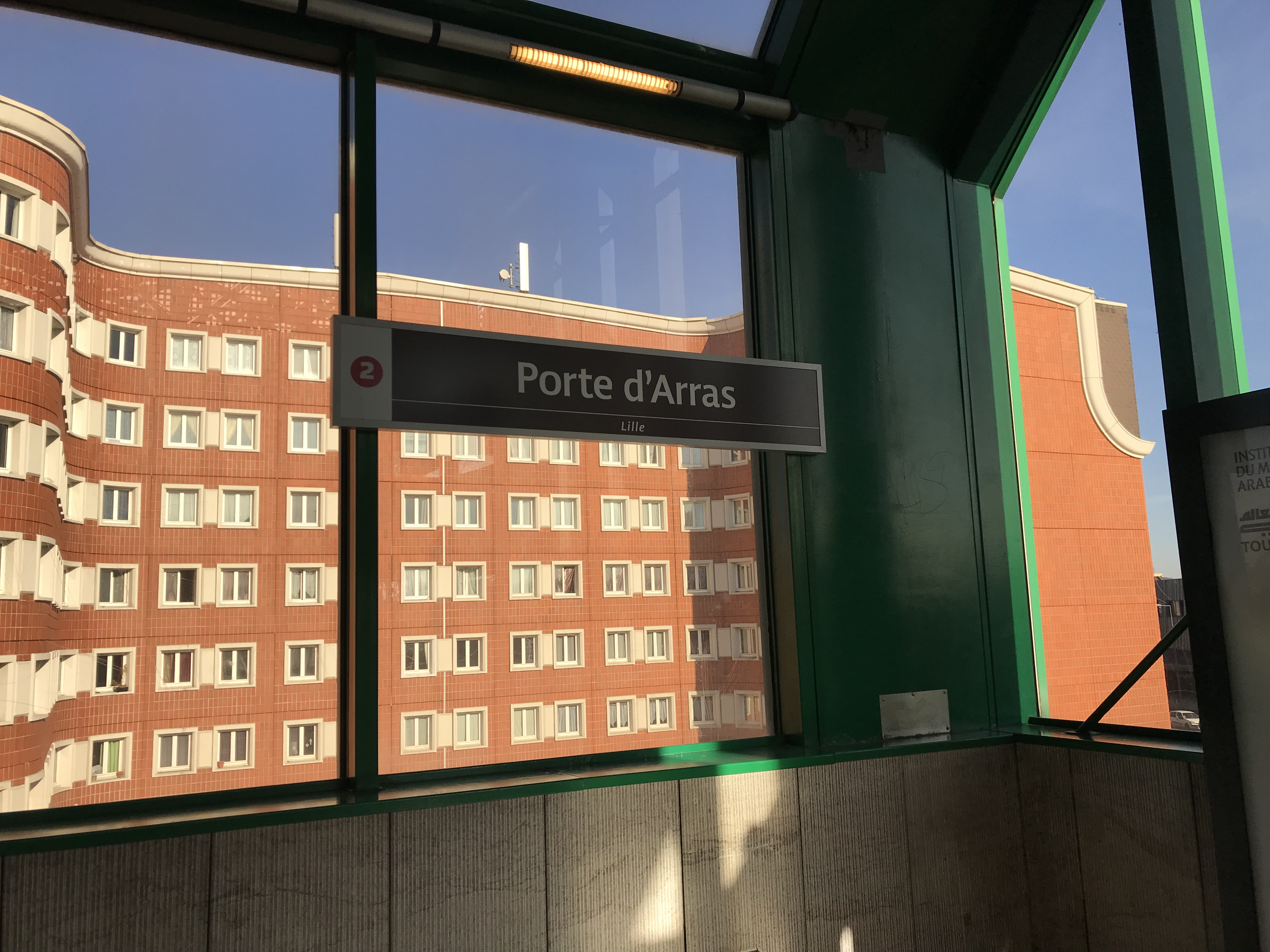 Panneau de la station de Porte d'Arras (métro lillois)